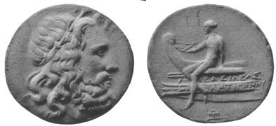 Coin of Antigonus III Doson, erlier attributed to Antigonus II Gonatas. Head of Poseidon, with flowing locks bound with marine plant. ΒΑΣΙΛΕΩΣ ΑΝΤΙΓΟΝΟΥ inscribed on prow, upon which Apollo is seated naked, holding bow.